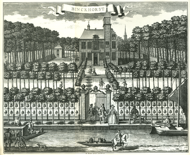 Binckhorst Castle, The Hague, Holland